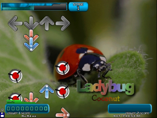 StepMania CVS 20070726 playing "Ladybug" by Coconut. The background image is derived from Image:Ladybug.jpg, a public domain image.